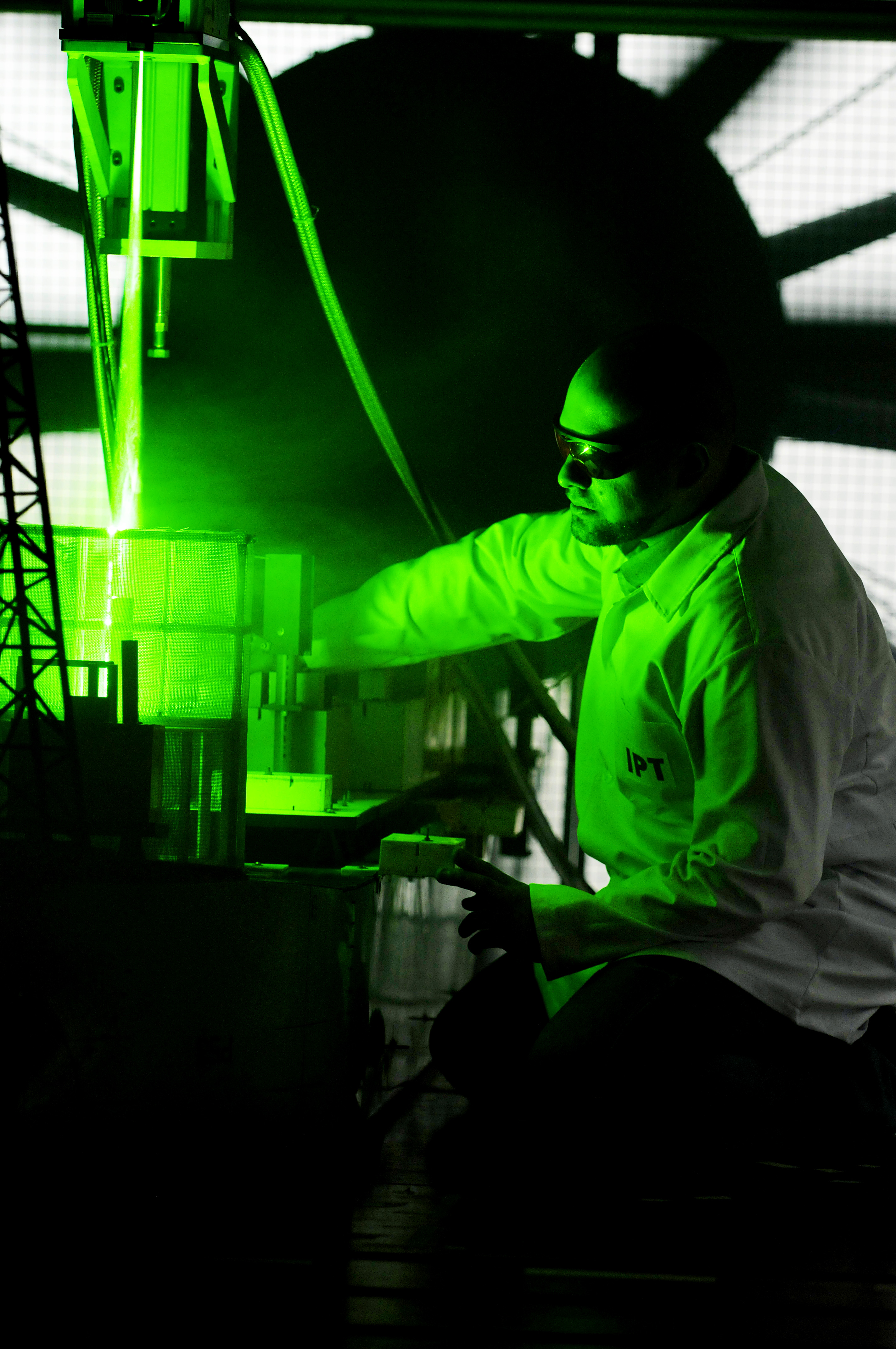 Wind tunnel IPT